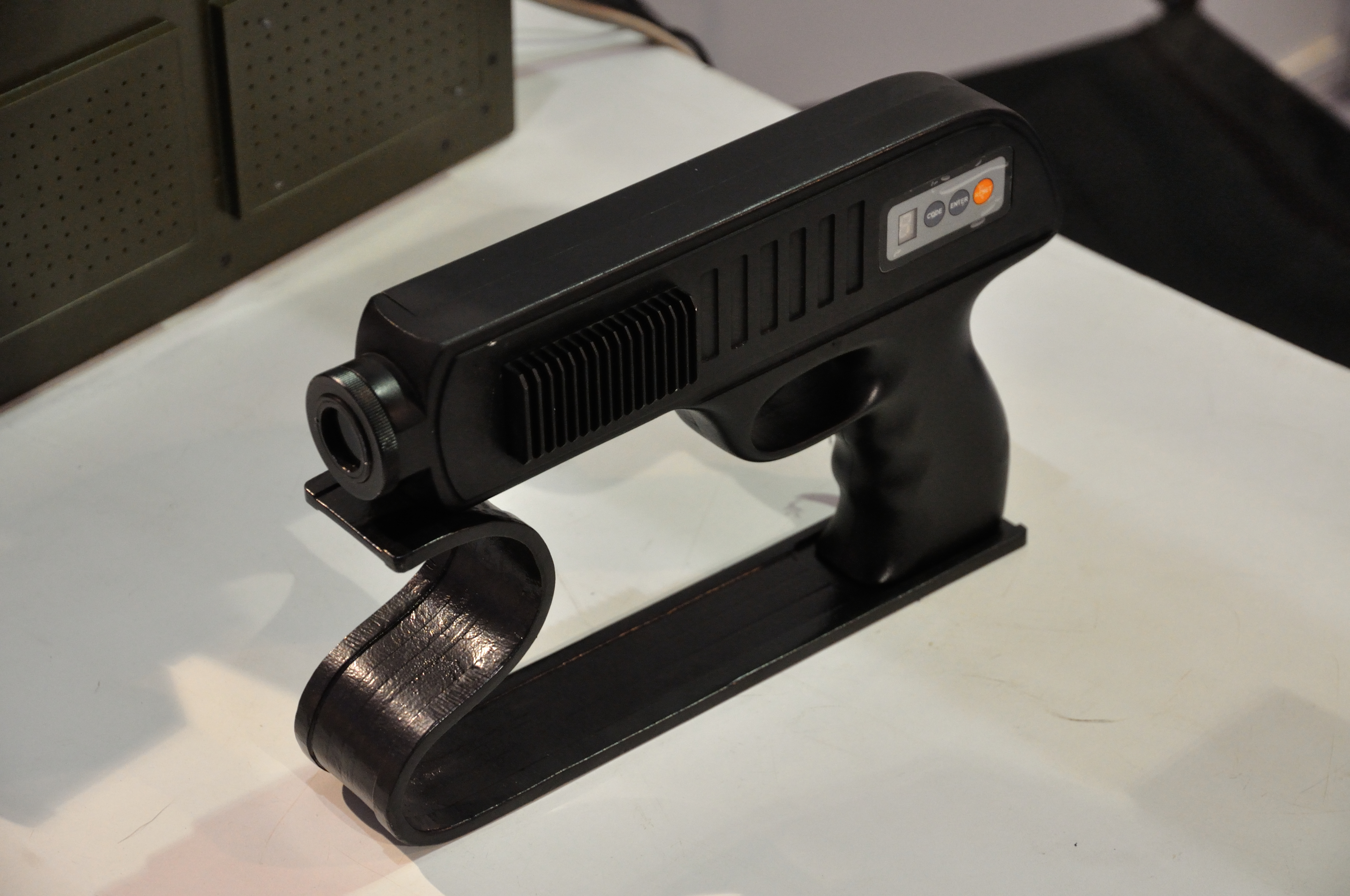 It is made by the 'Defence Research and Development Organisation', India or DRDO, shown at the 'Pride of India' exhibition, organised by the 'Indian Science Congress Association' on the occasion of the '100th Indian Science Congress' in Kolkata from 3rd to 7th january, 2013.